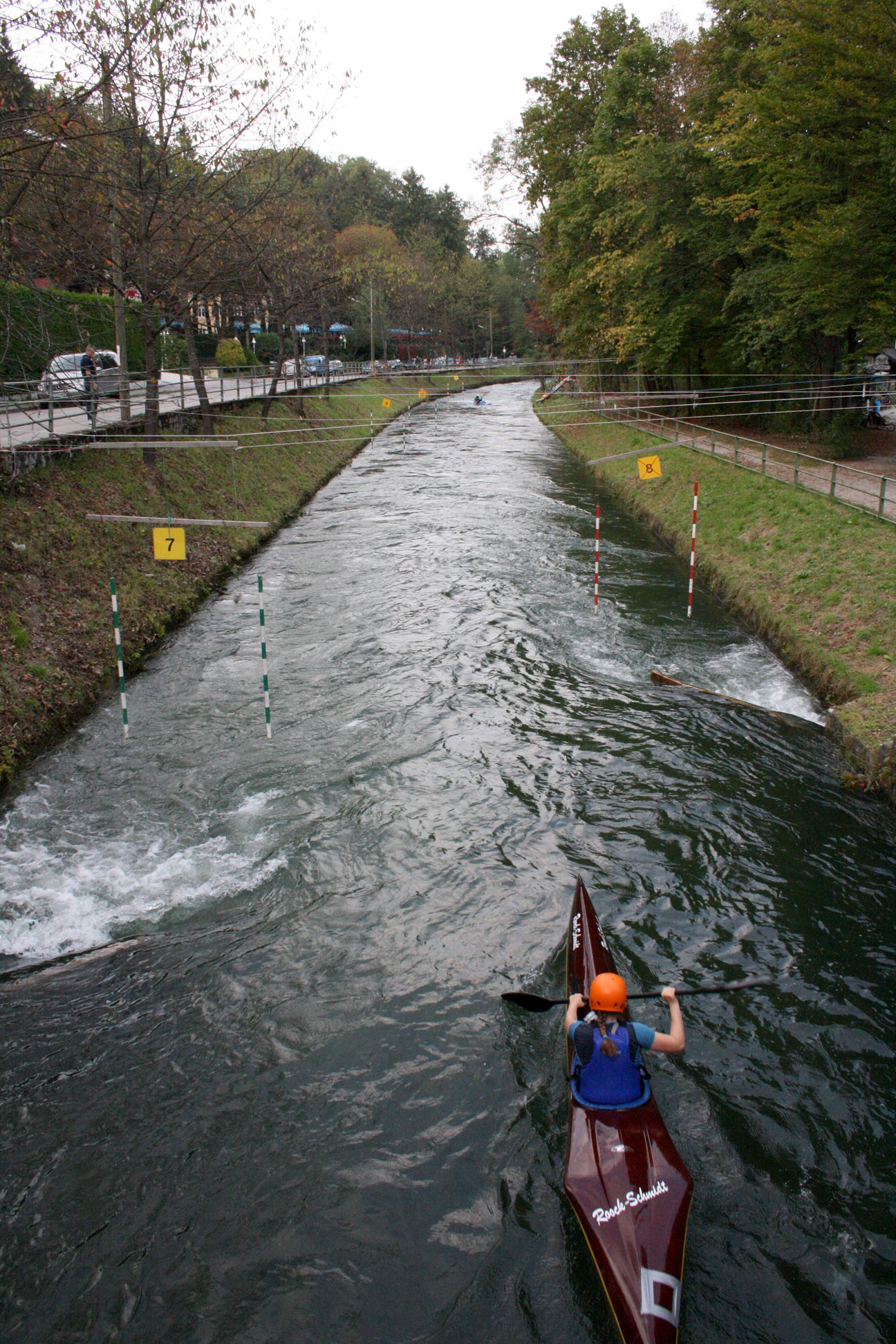 Floßkanal (raft channel) in Munich, canoeing